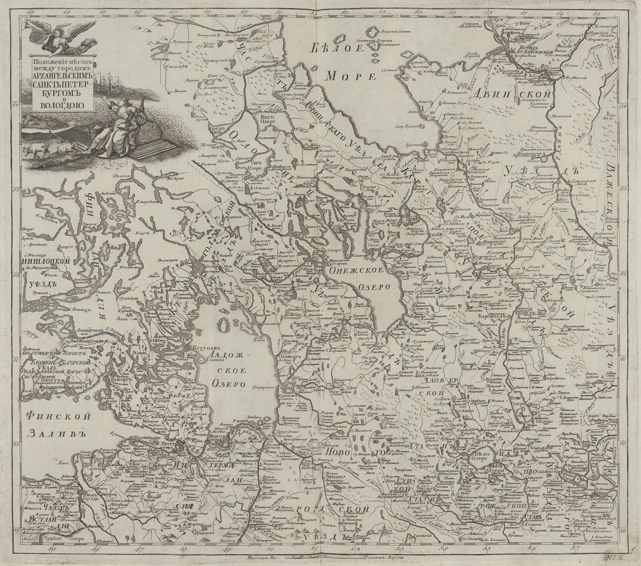 First official geographic atlas of the Russian Empire (1745). Map of places between Arkhangelsk, St. Petersburg and Vologda.